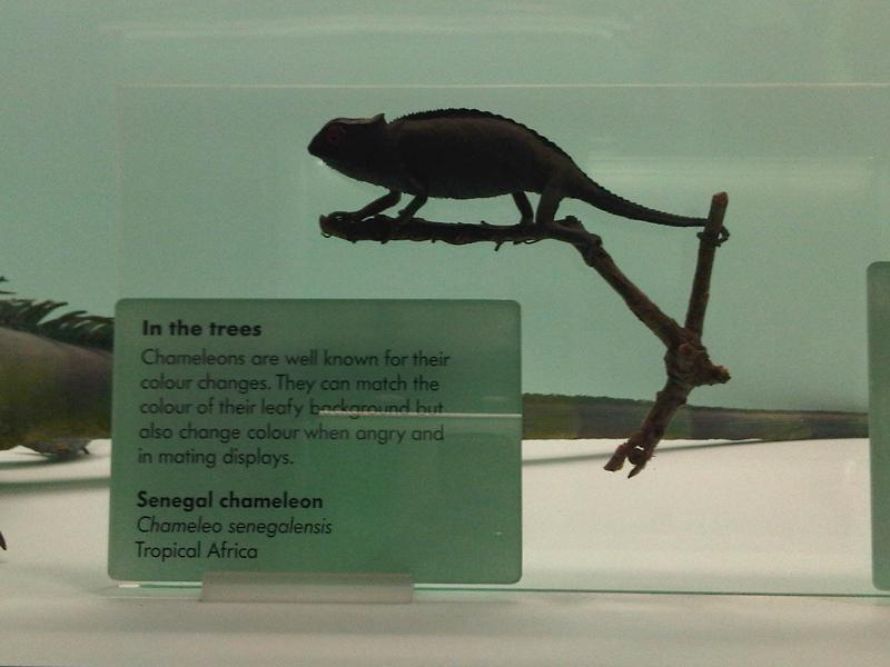 Taxidermied Senegal Chameleon (Chamaeleo senegalensis) at the Natural History Museum in London, England.